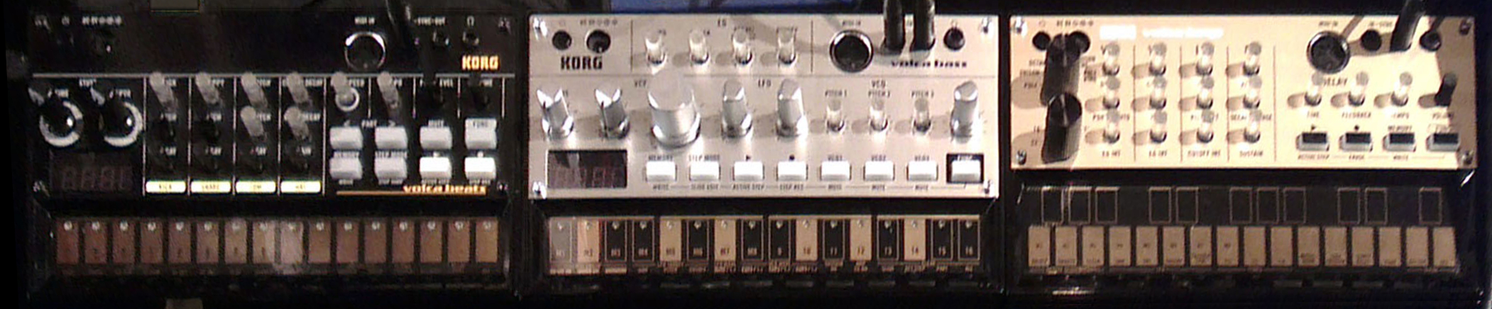 top to bottom, left to right Korg volca beats Korg volca bass Korg volca keys